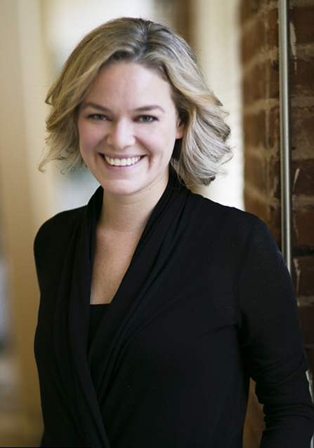 Photo by Myleen Hollero